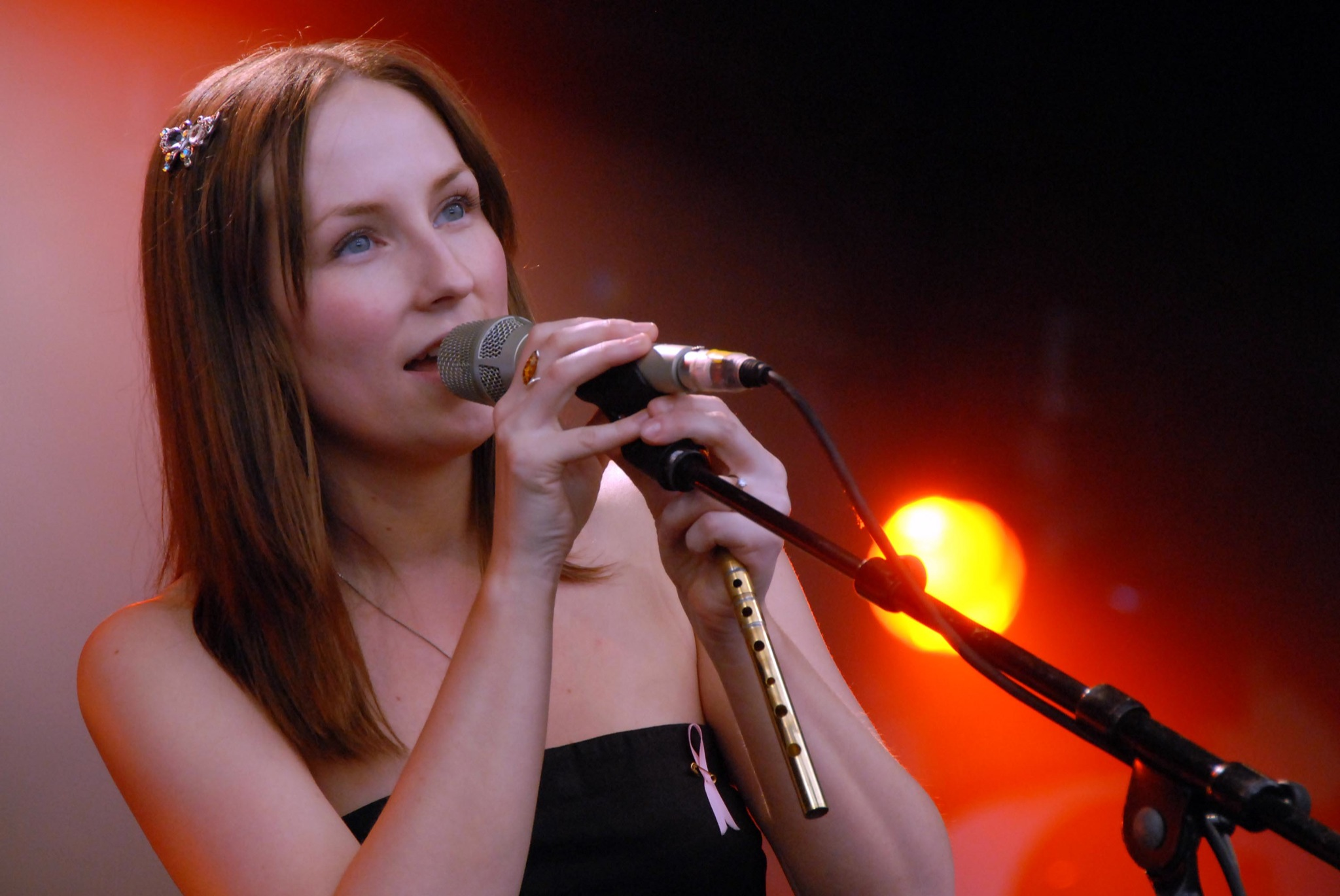 Musicians Cambridge Festivals 2001-2014